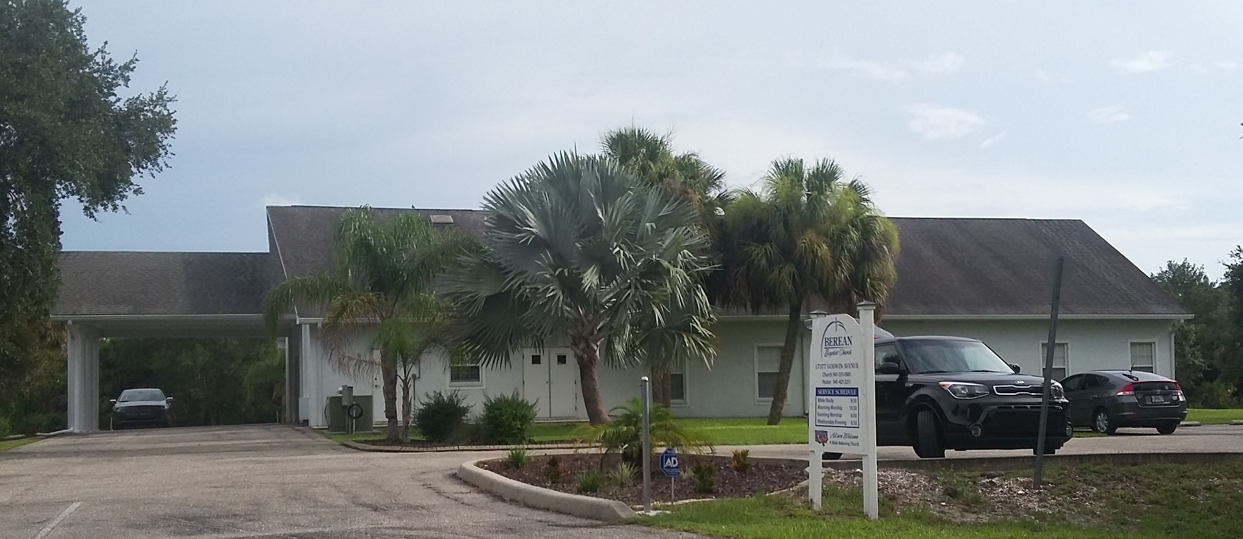 A small fundamentalist Independent Baptist church in Port Charlotte, Florida.